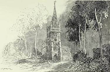 The Old Church, Wikipedia:Kingston Seymour, Somerset.